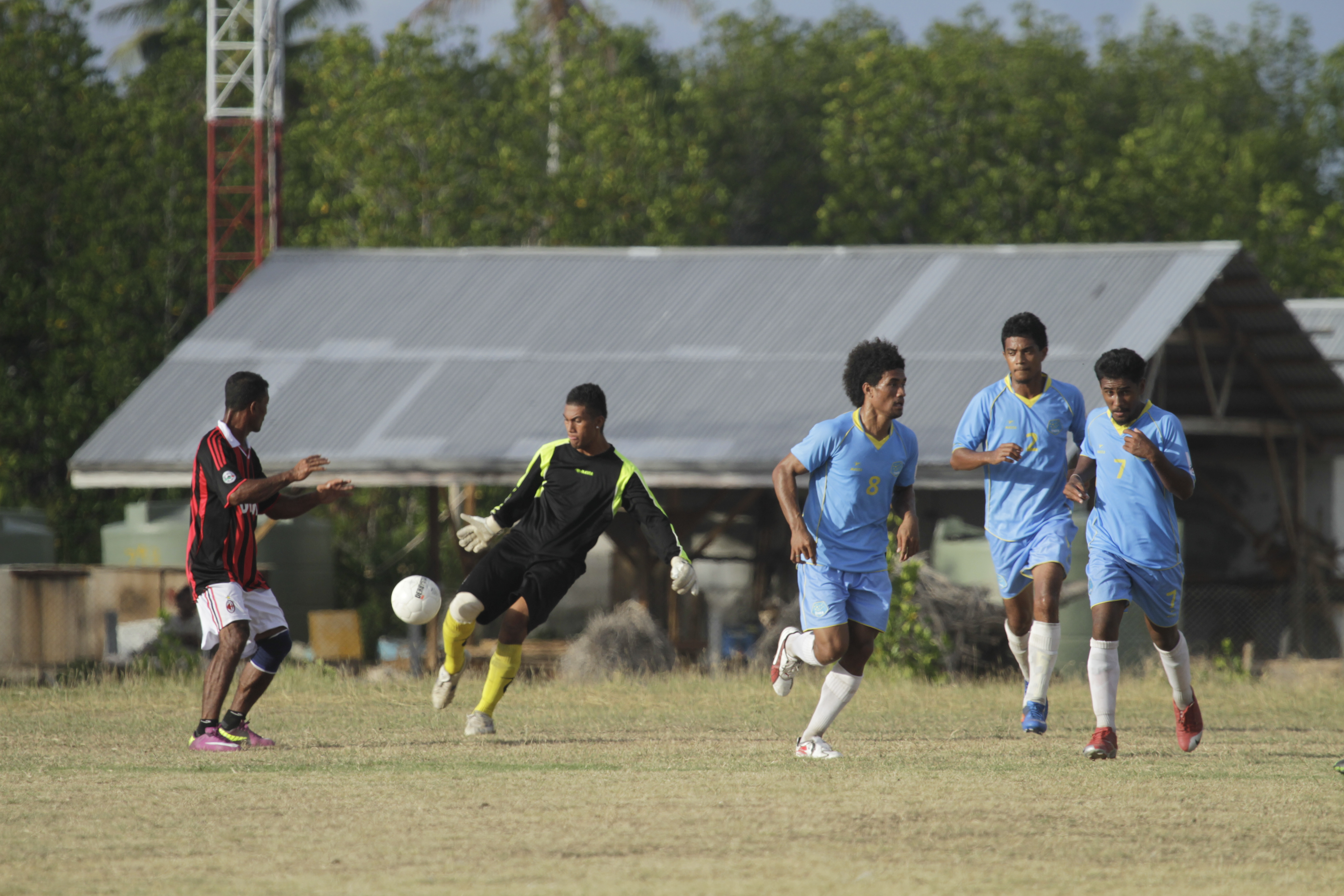 Sieni_01